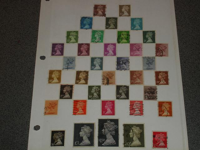 An album page of Machin Heads series postage stamps of Great Britain